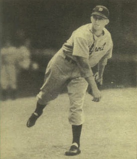 Former Detroit Tigers pitcher Bud Thomas.